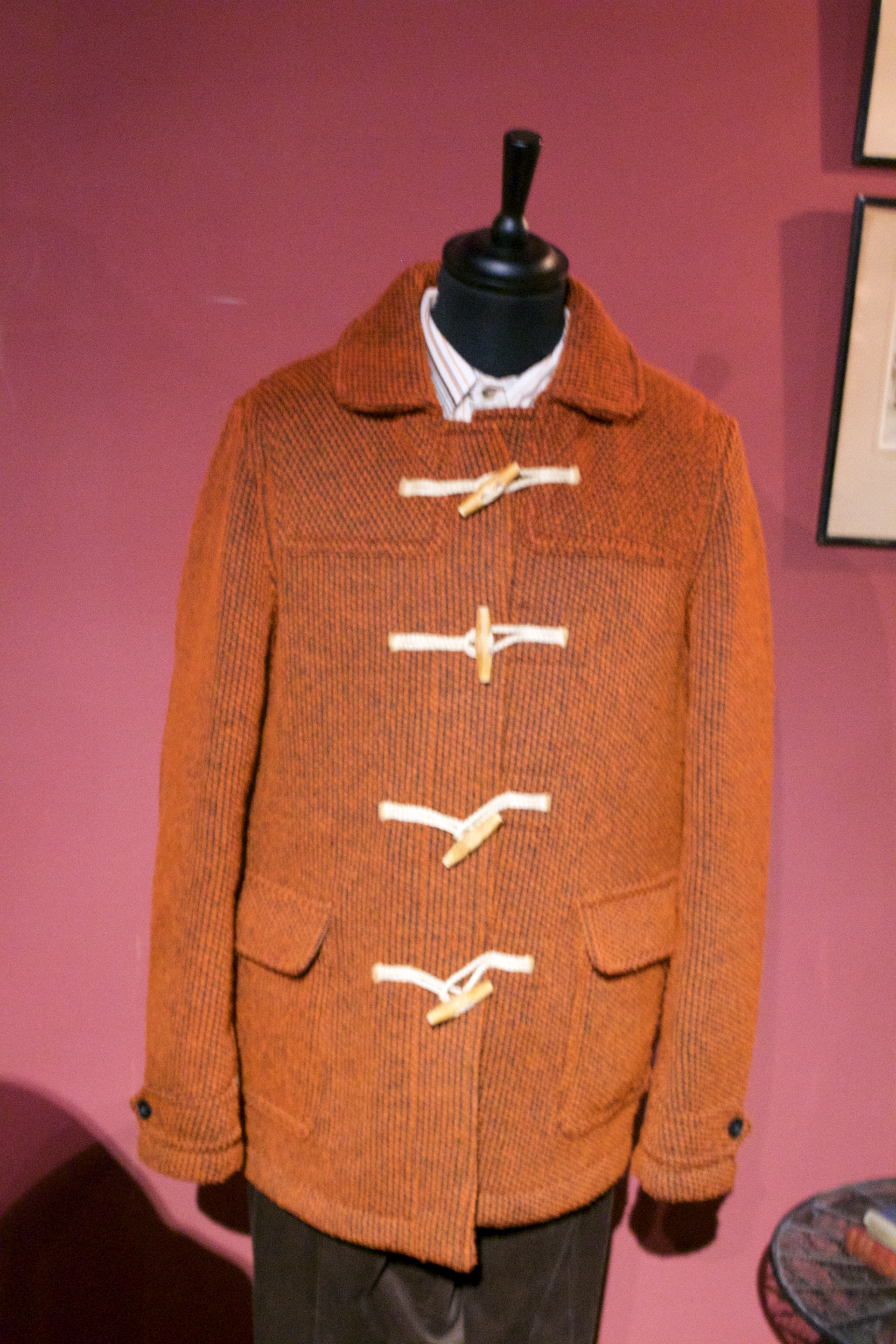 IMG_8615 Doctor Who Experience series 10